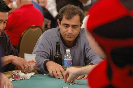 Hamid Dastmalchi at the en:2005 World Series of Poker